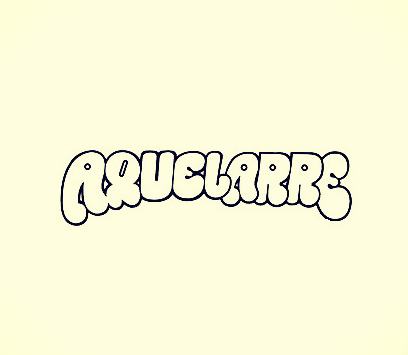 Logo de la banda Aquelarre